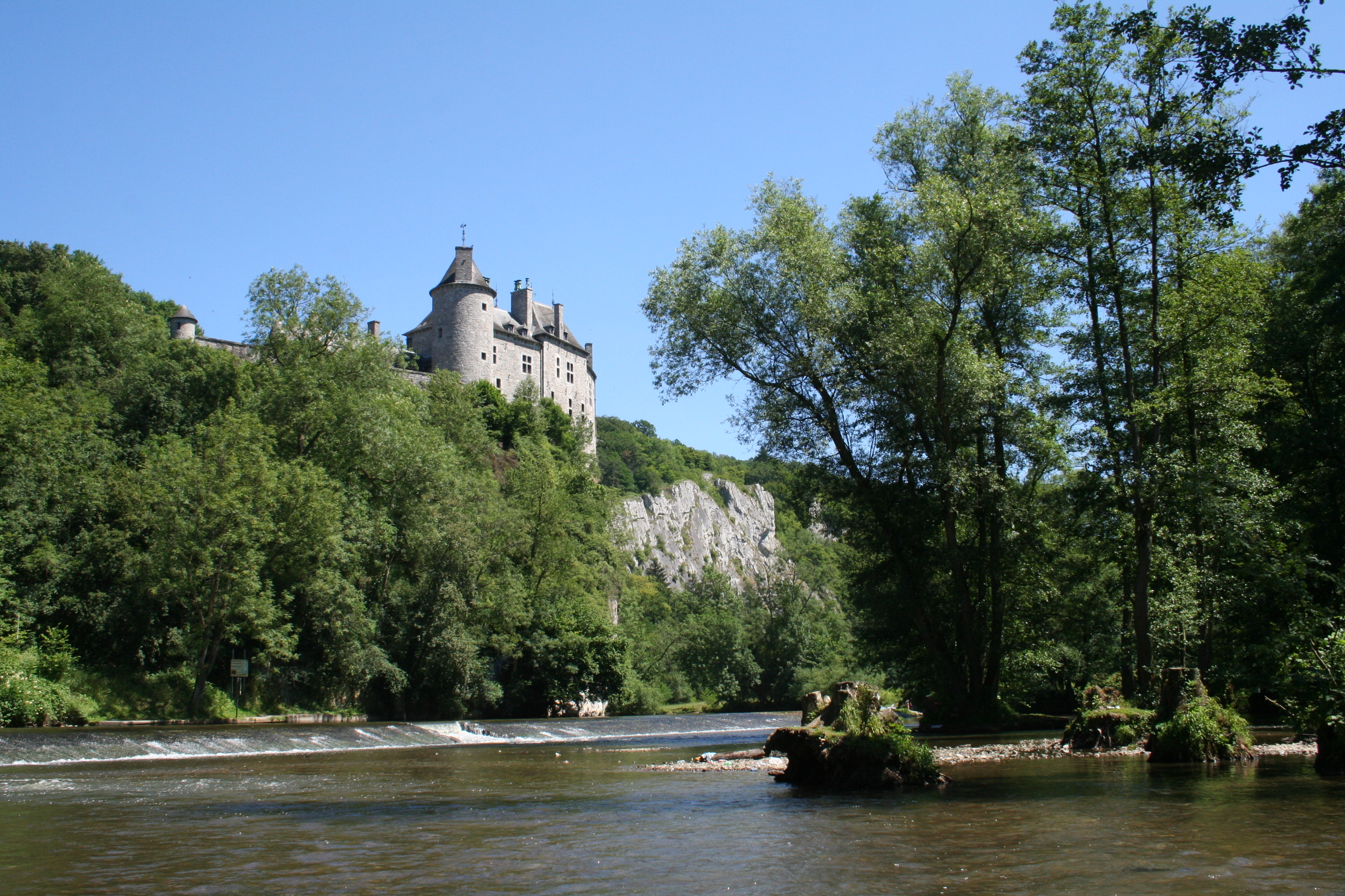 Dréhance (Belgium), the castle of Walzin and the Lesse River.